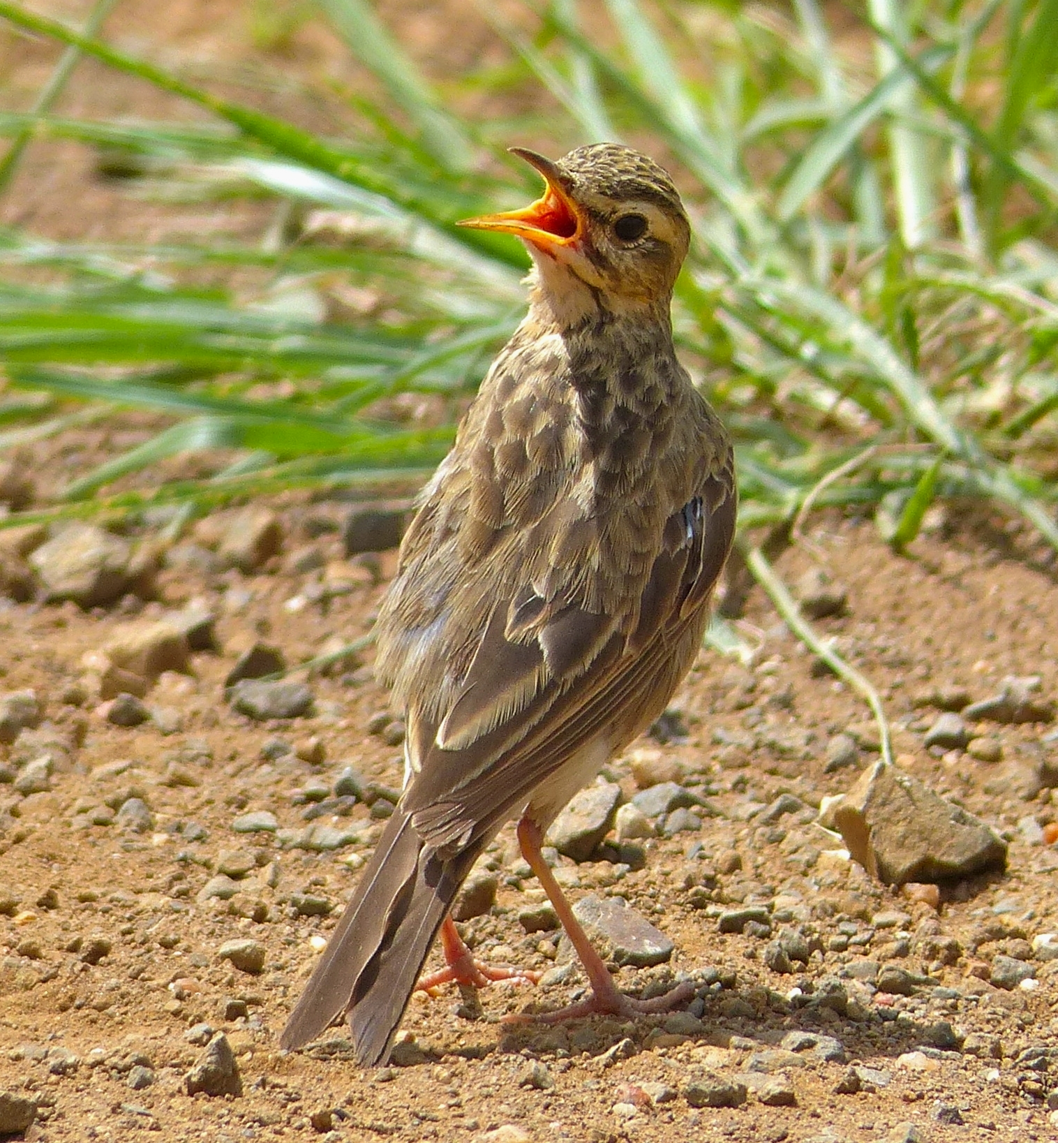 An immature African pipit on the S100 Road East of Satara, Kruger NP, SOUTH AFRICA